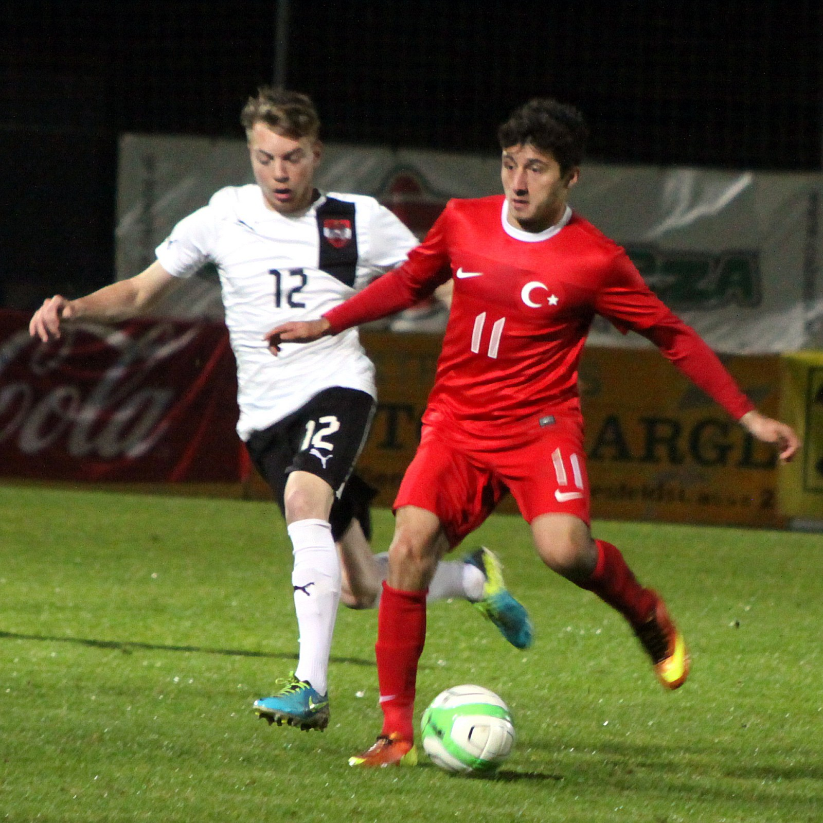 Friendly-match Austria U-21 vs. Turkey U-21 (2:0) on 2013-11-14 in Wiener Neudorf. – The photo shows Enver Cenk Şahin (Istanbul Büyükşehir Belediyespor, Turkey).